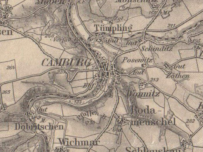 Map of Camburg, 1921